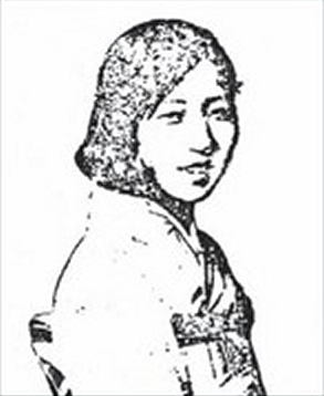 Kim Myung-sun, one day of 20age years